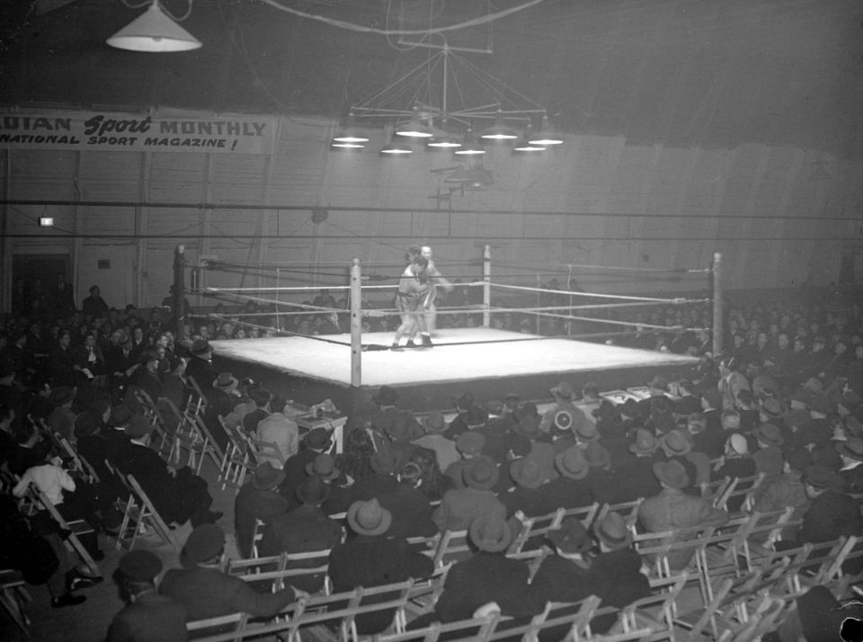 We see two boxers competing on the ring during a fight presented to the Coliseum Skating Ring of Montreal.